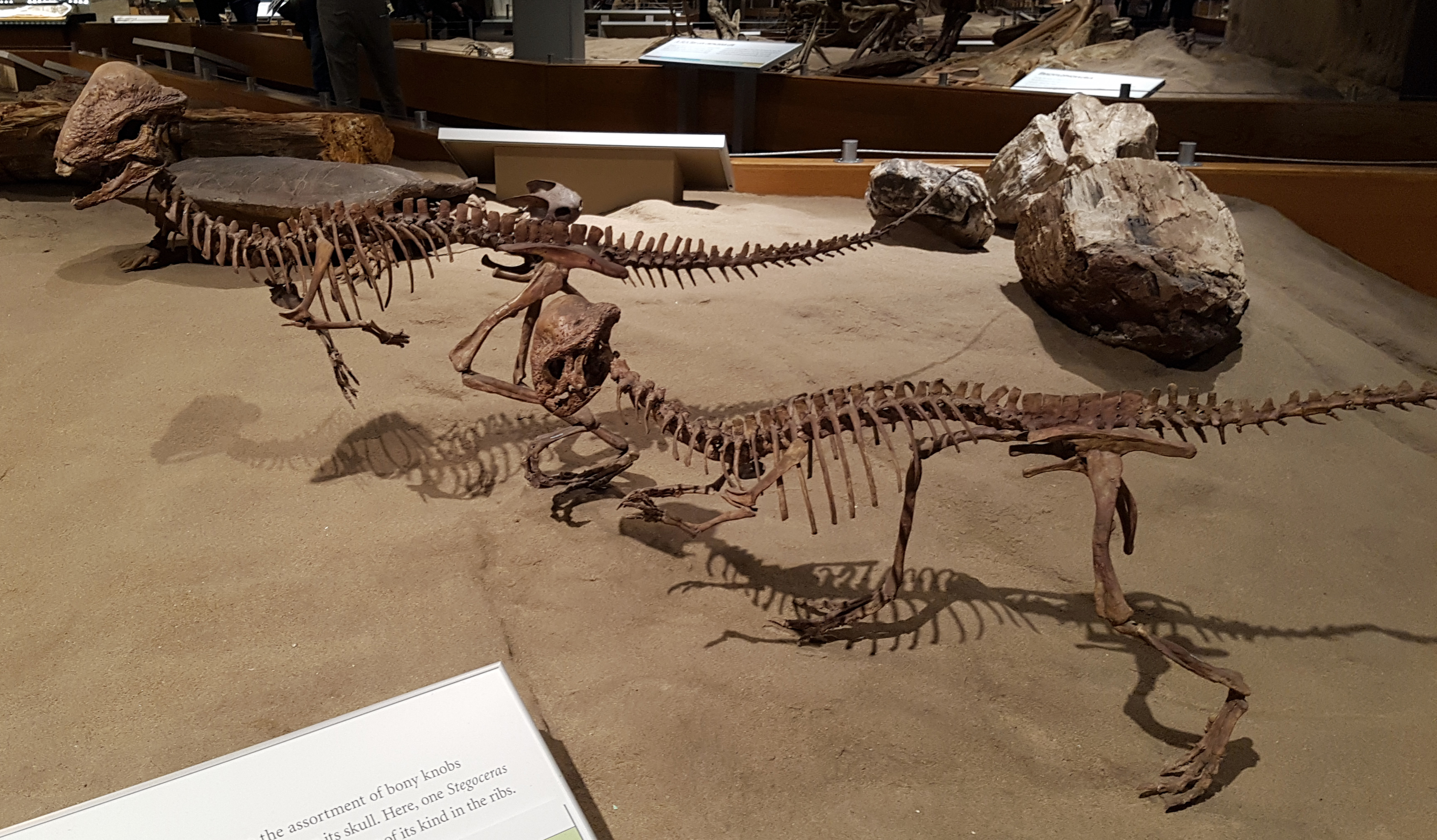 Royal Tyrrell Museum Stegoceras